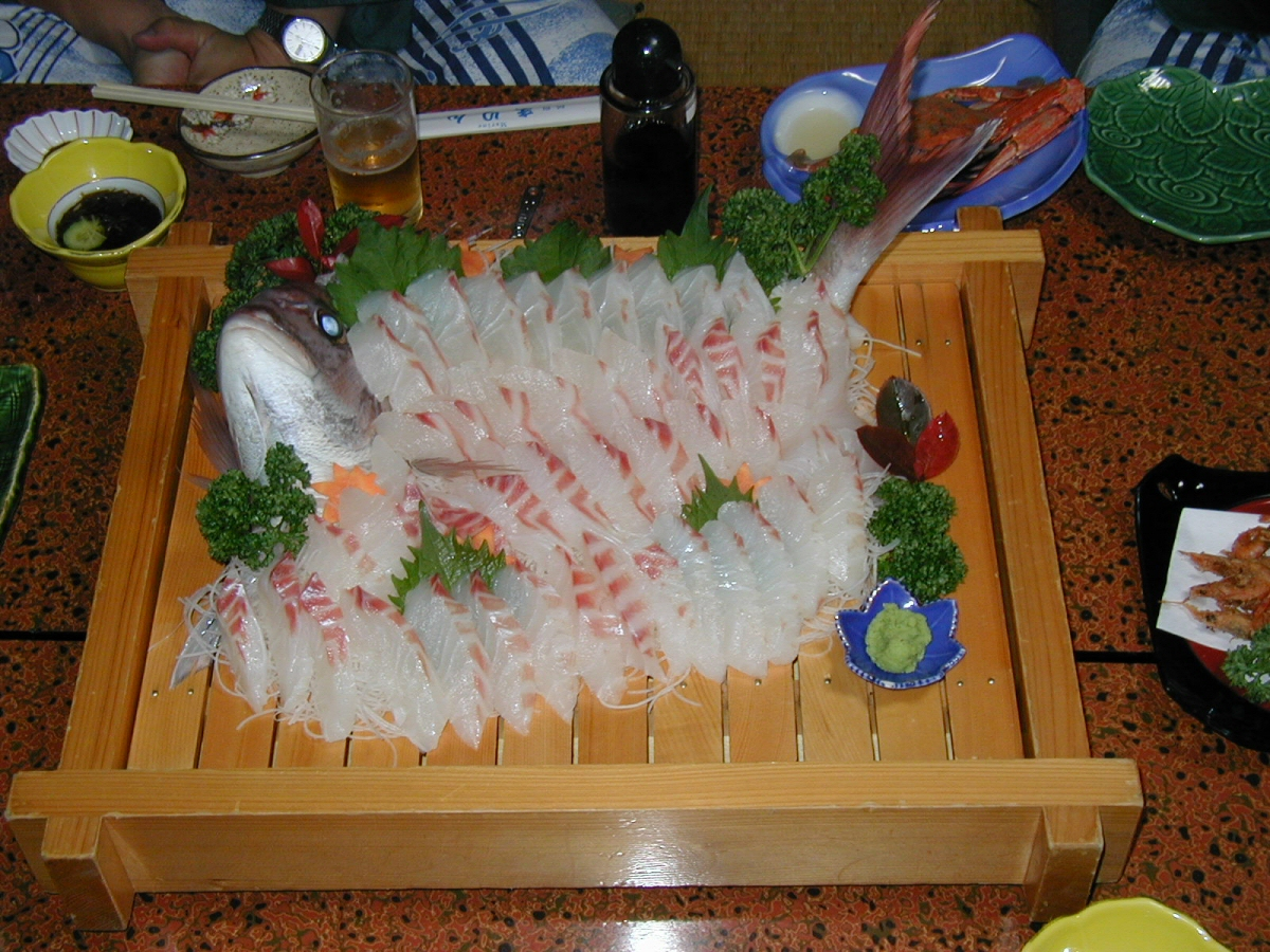 a SASHIMI dish of Red seabream(Pagrus major, a kind of Sparidae); マダイの姿造り